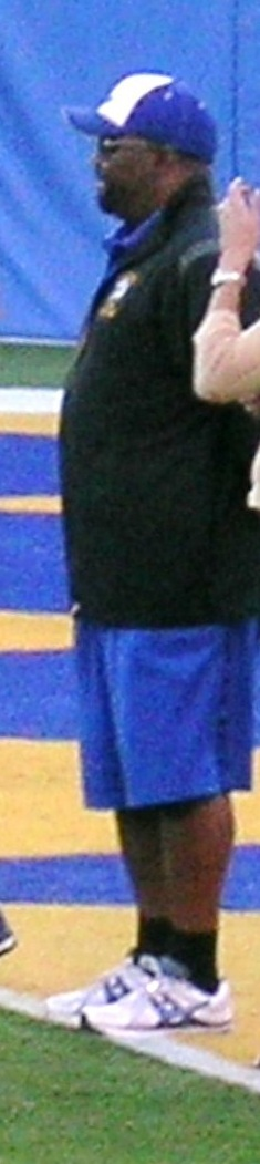 Sheldon Canley at halftime of the San Jose State/Southern Utah football game on Sept. 17, 2010, in ceremony recognizing induction in SJSU sports hall of fame